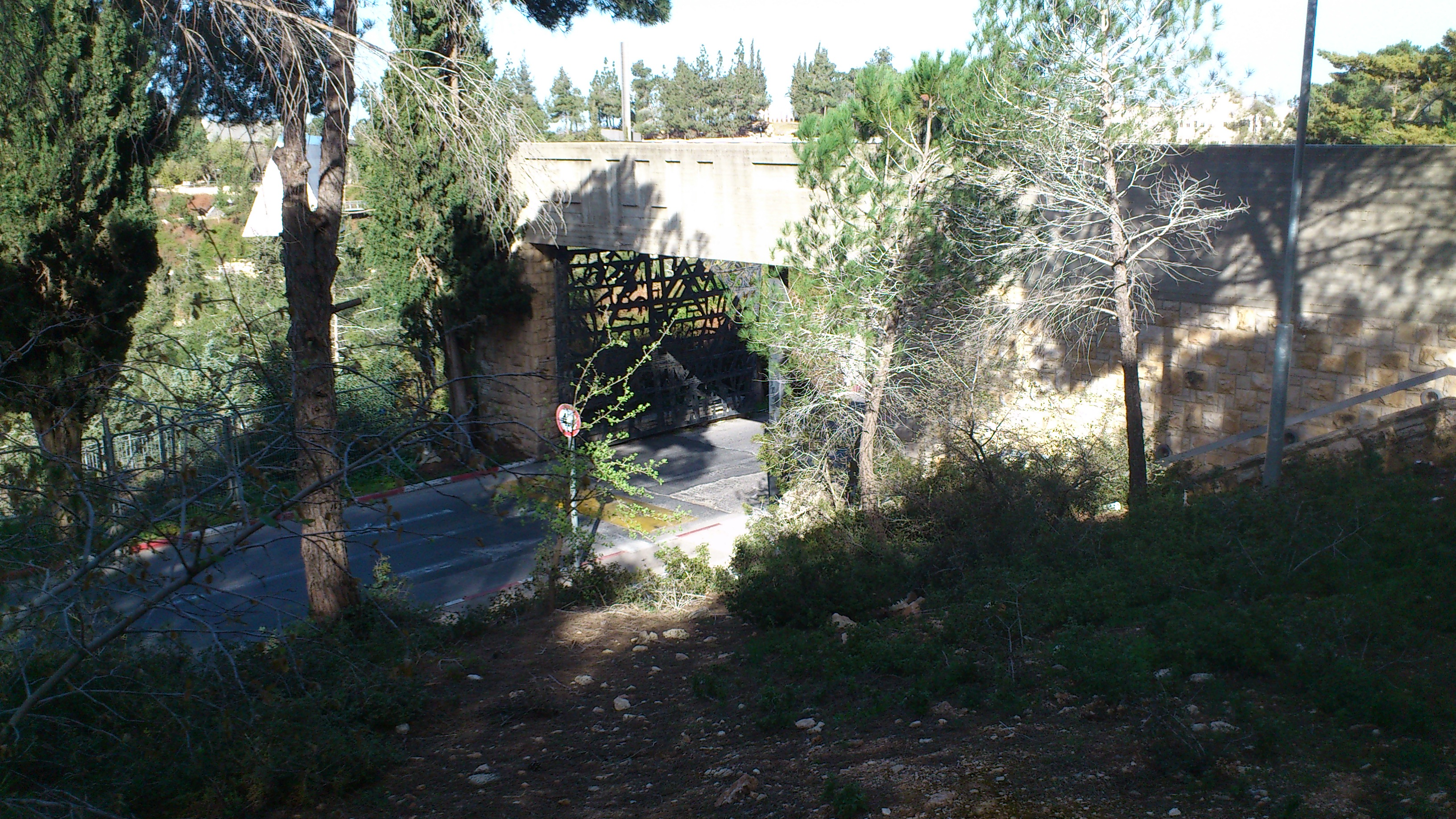 Yad Vashem